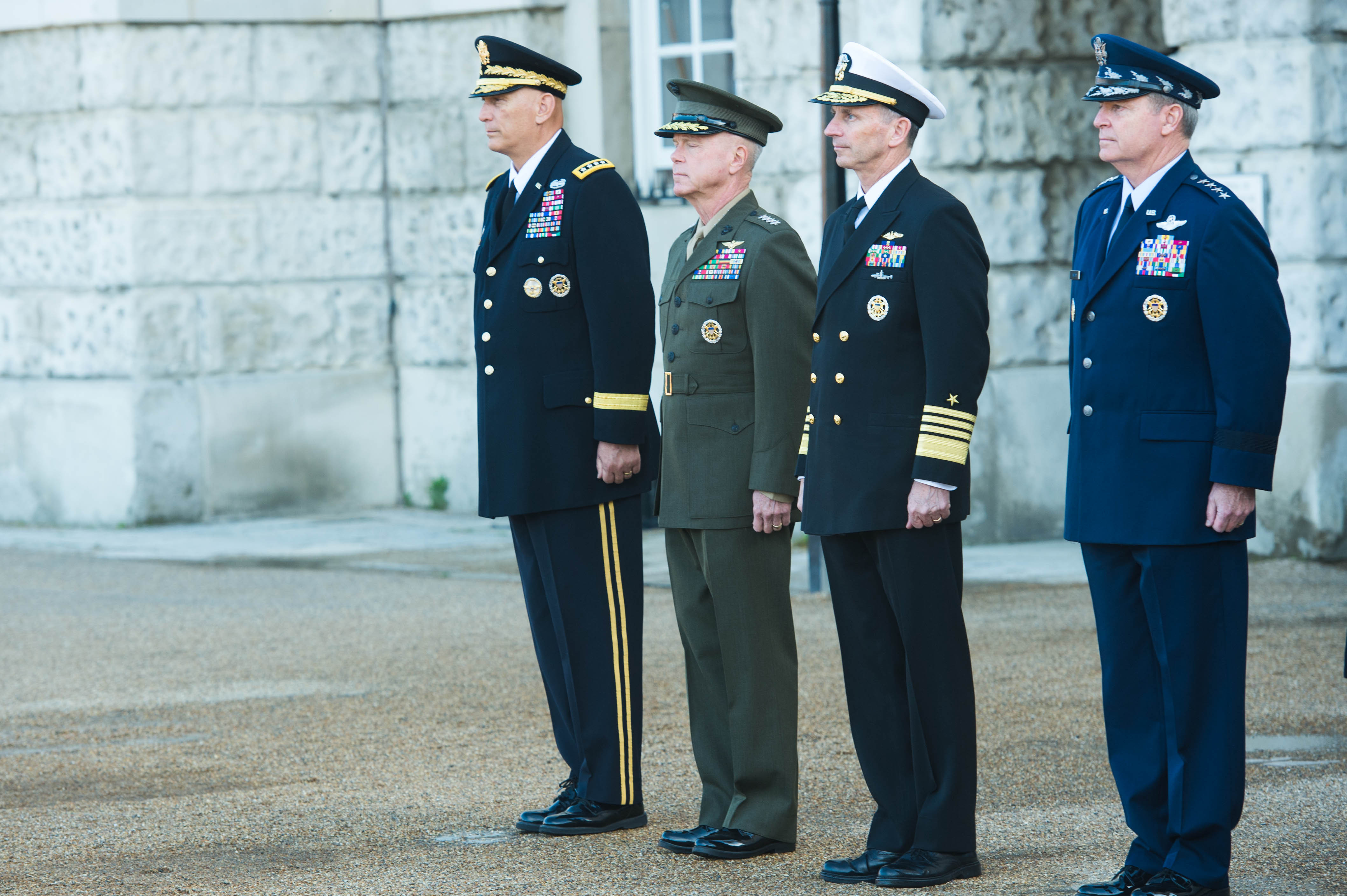 The Joint Chiefs of Staff, left to right, U.S. Army Chief of Staff Gen. Ray Odierno, Commandant of the Marine Corps Gen. James F. Amos, Chief of Naval Operations Adm. Jonathan W. Greenert, and Chief of Staff of the Air Force Gen. Mark A. Welsh III attend a ceremony where Chairman of the Joint Chiefs of Staff Gen. Martin E. Dempsey is to inspect Great Britain's Guard of Honour, Coldstream guard at the Horse Guards Parade Field in London, June 10, 2014. (U.S. Army photo by Staff Sgt. Steve Cortez/ Released)